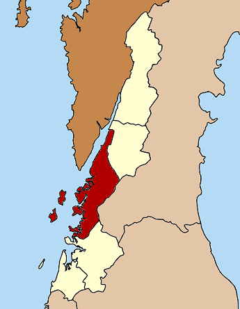 Map of Ranong province, Thailand, with the district Mueang Ranong (อำเภอเมืองระนอง) highlighted.